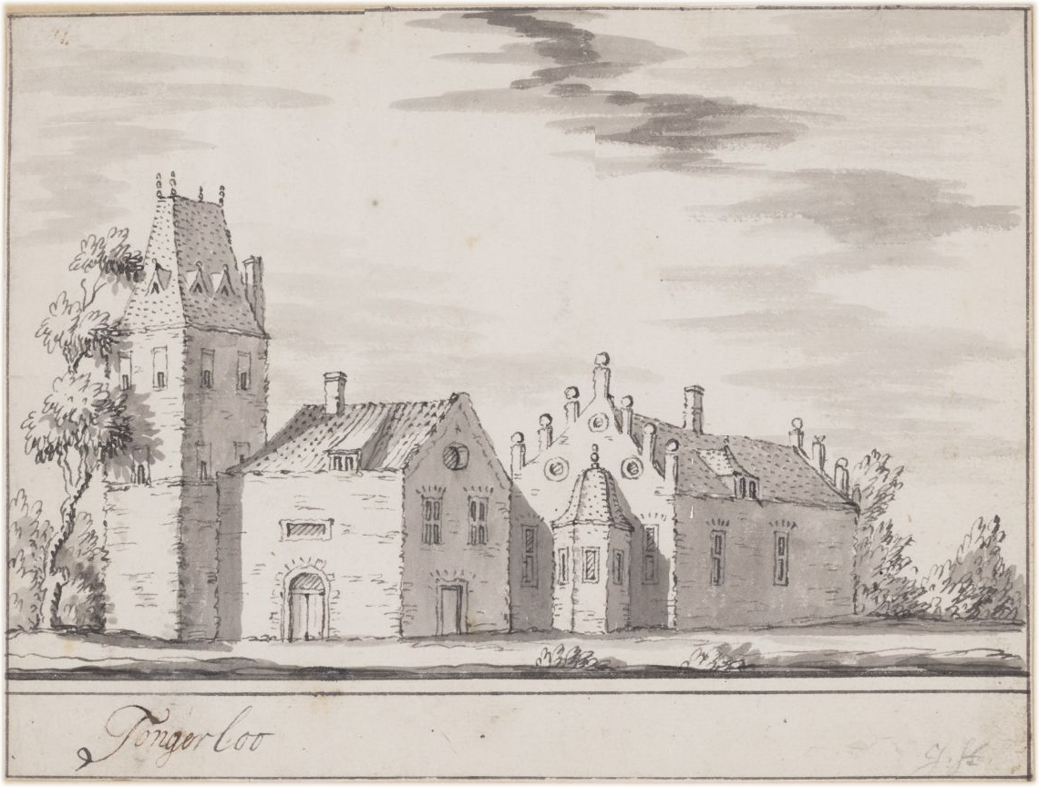 castle tongerlo